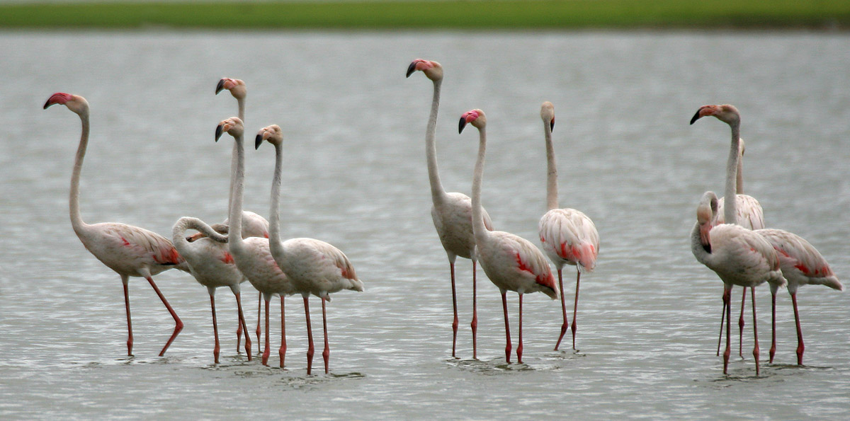 Greater Flamingo Phoenicopterus roseus - Sind: Lakka, Lakke jani, Hindi: Bog/Raaj hans, Sans: Bruhat balak, Bagg, Valiya rajahamsam, Bi: Charaj baggo, Ben: Kanmunthi, Kanthuti, Guj: Balo, Hunj, Moto hanj, Kutch: Hanj pakkhi, Mar: Rohit, Gnipankh, Pandav, Ta: Poonarai, Kizhi mooku naarai, Te: Pu konga, Samudrapu chiluka, Raja hamsa, Mal: Valiya poonara, Sinh: Siyak karaya- at Pocharam lake, Andhra Pradesh, India.